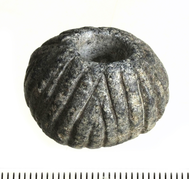 Spindle whorl, archeological object, from Aust-Agder, Norway